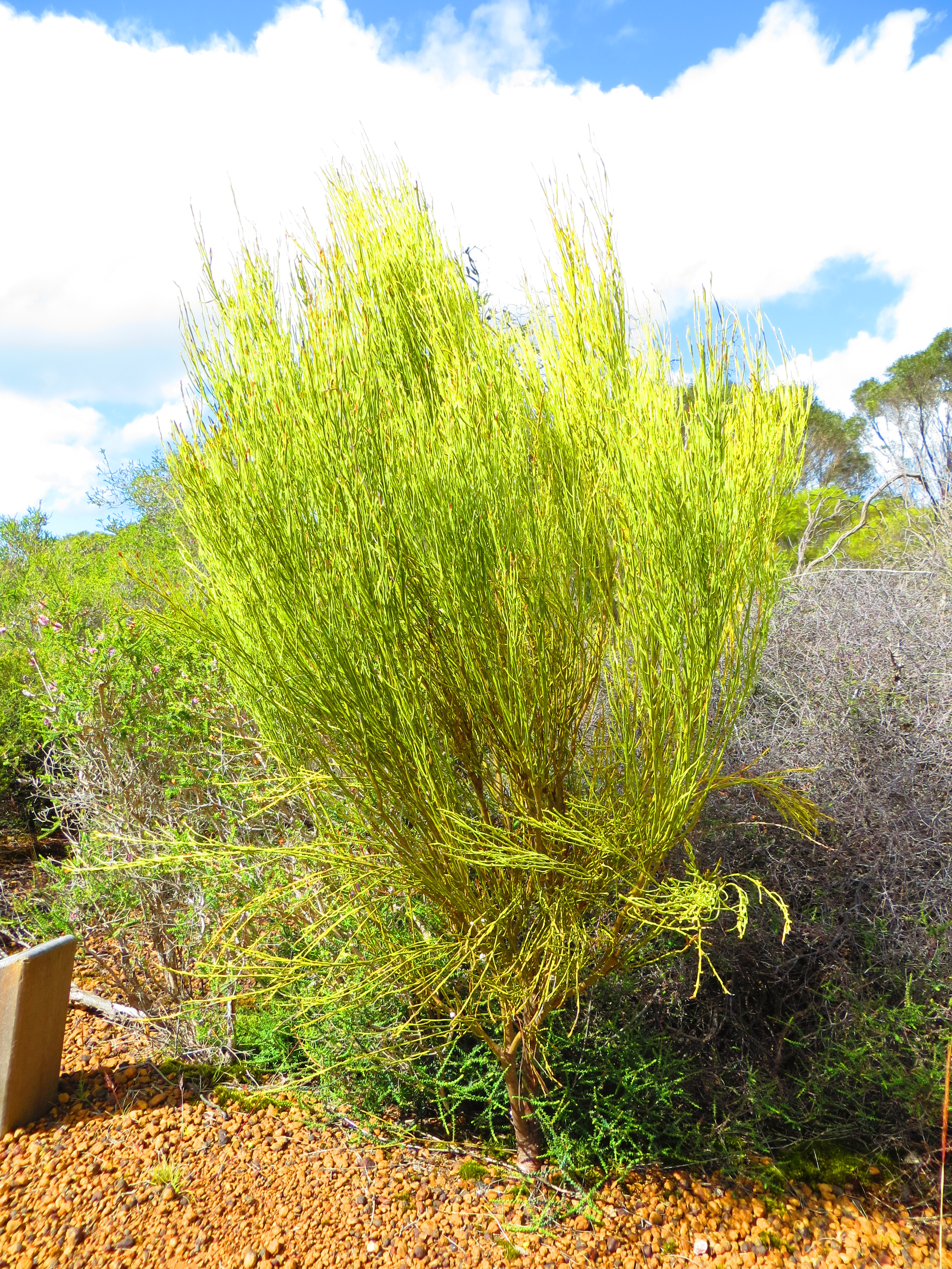 Common sour bush (Choretrum glomeratum). Beyeria Conservation Park, Kangaroo Island, South Australia.